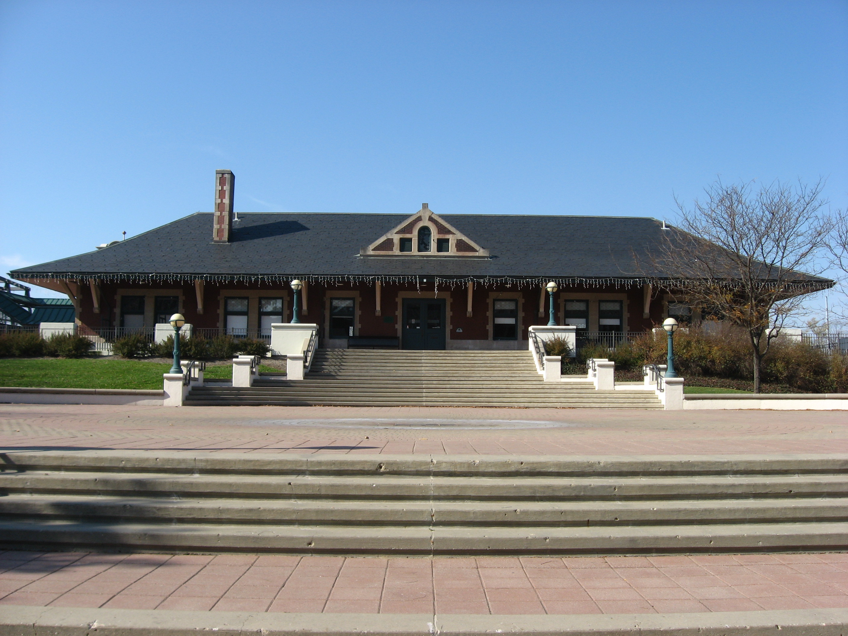 Front of the Big Four Depot (the depot of the Cleveland, Cincinnati, Chicago and St. Louis Railway), located at 200 N. Second Street in Lafayette, Indiana, United States. Built in 1902, it is listed on the National Register of Historic Places.